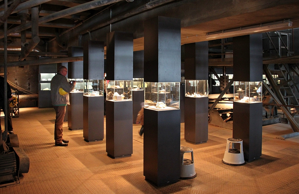 Goslar, Rammelsberg mine, UNESCO World heritage site, mineralogical collection.